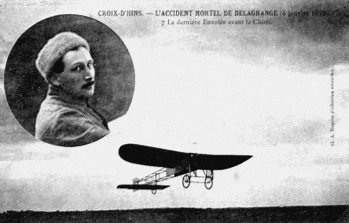 Léon Delagrange s'envolant pour son dernier vol le 4 janvier 1910